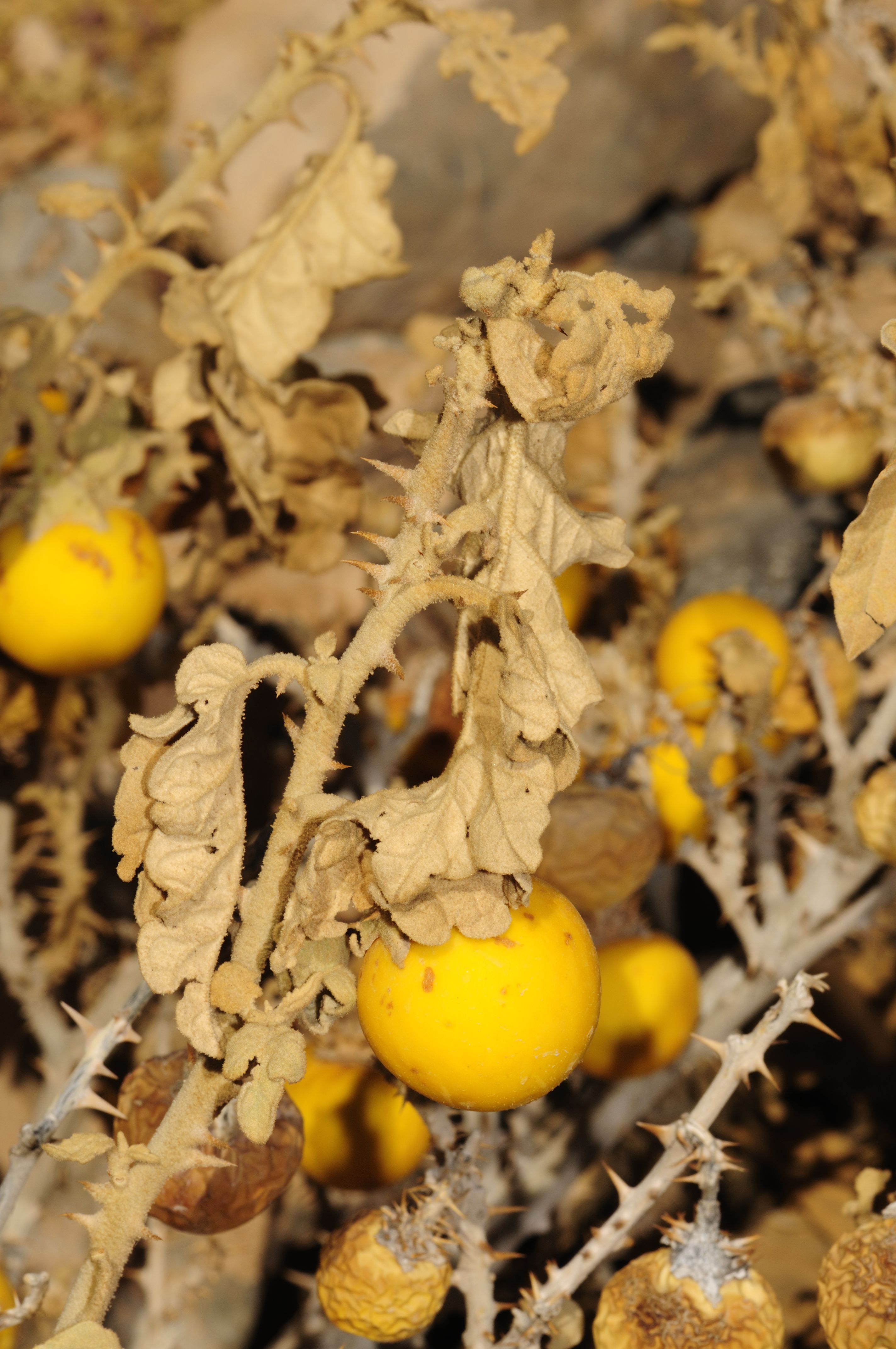 Please report references to .